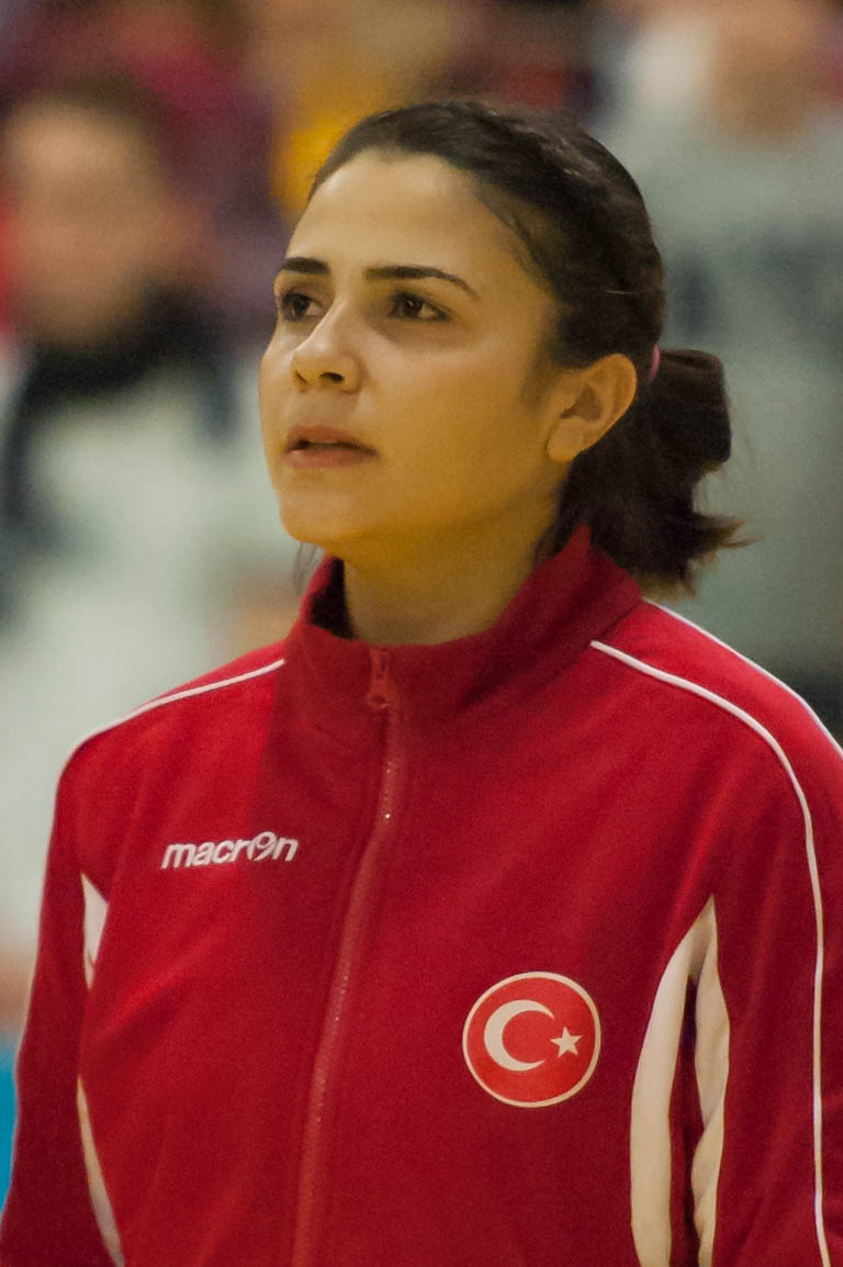 2015 World Women's Handball Championship Qualification 2014-12-06: Neslihan Yakupoğlu